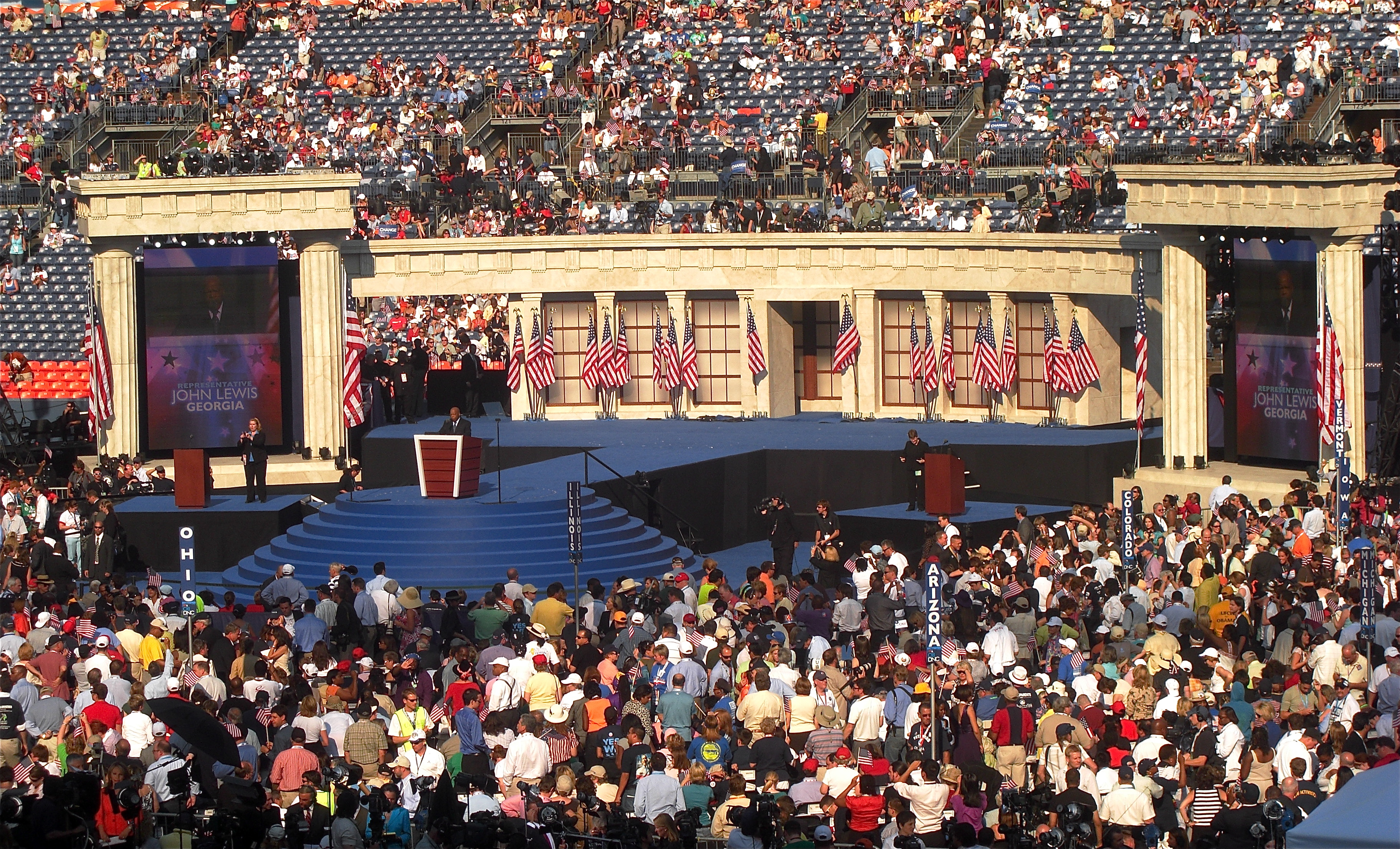 John Lewis speaks during the final day of the 2008 Democratic National Convention in Denver, Colorado.